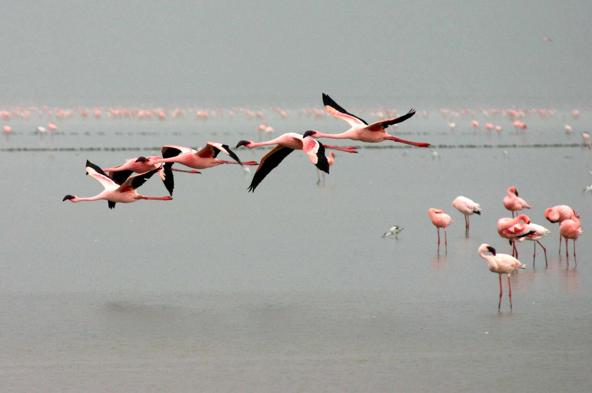 Lesser Flamingos (Lesser Flamingos ) in the Ngorongoro Crater, Tanzania